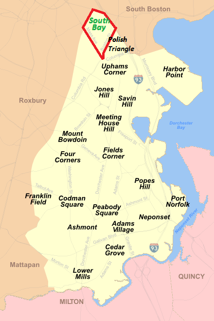 This is an version based on user Sswonk's upload, adding & highlighting new neighborhood South Bay in North Dorchester.